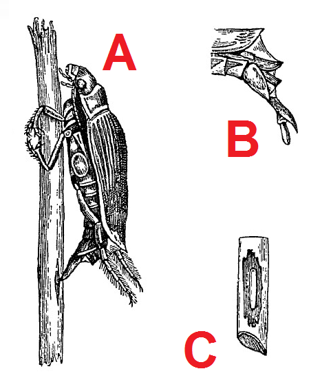 Eggs of Dytiscus